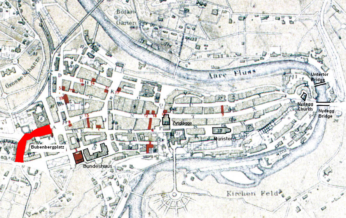 City plan of Bern, 1882. Scanned from BERN: Eine Stadt vor 100 Jahren, Bilder und Berichte; Peter Lauenberger, Emil Erne; München 1997; p. 7. Originally from Bern und seine Umgebungen, C.H. Mann, 1882 in the Alpines Museum of Bern. Due to the age of the image, it must be assumed that the author has been dead for more than 70 years. Copyright protection has therefore lapsed under Swiss copyright law (Art. 29 par. 3 URG).